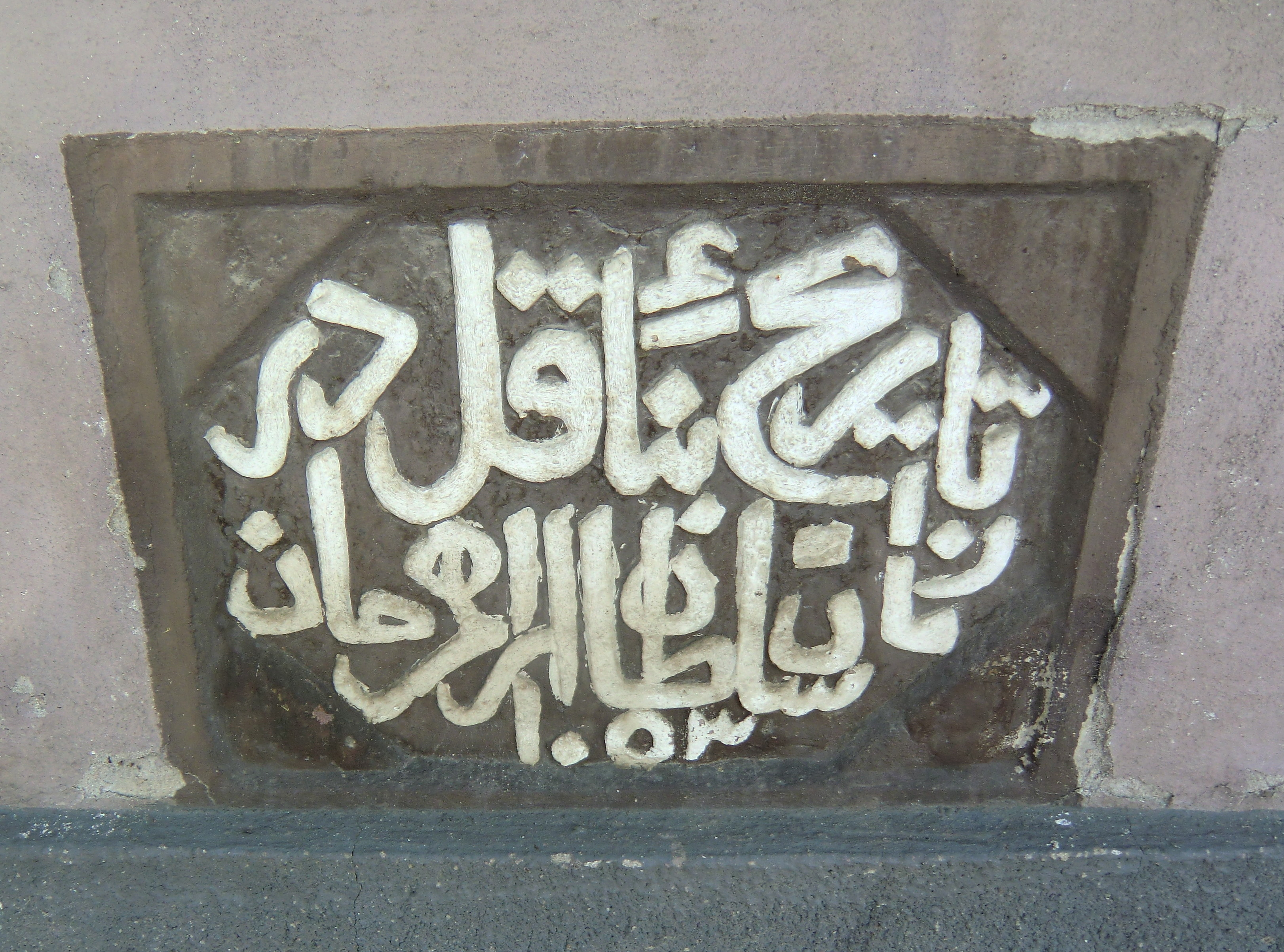 Turkisk inscriptions on the old city hall, Timisoara.